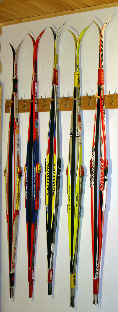 skis